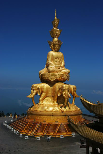 Mt Emei summit golden statue of Puxian Buddha that is wight of 660 tones. Mt. Emei, located in Suchuan province, China, stands at 3099 meters (10,167 feet), and is associated with Puxian Bodhisattva (Samantabhadra).